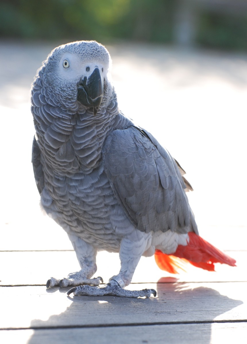 Congo African Grey Parrot. Its irises are yellow indicating that it is an adult. It has a ring on its left leg.